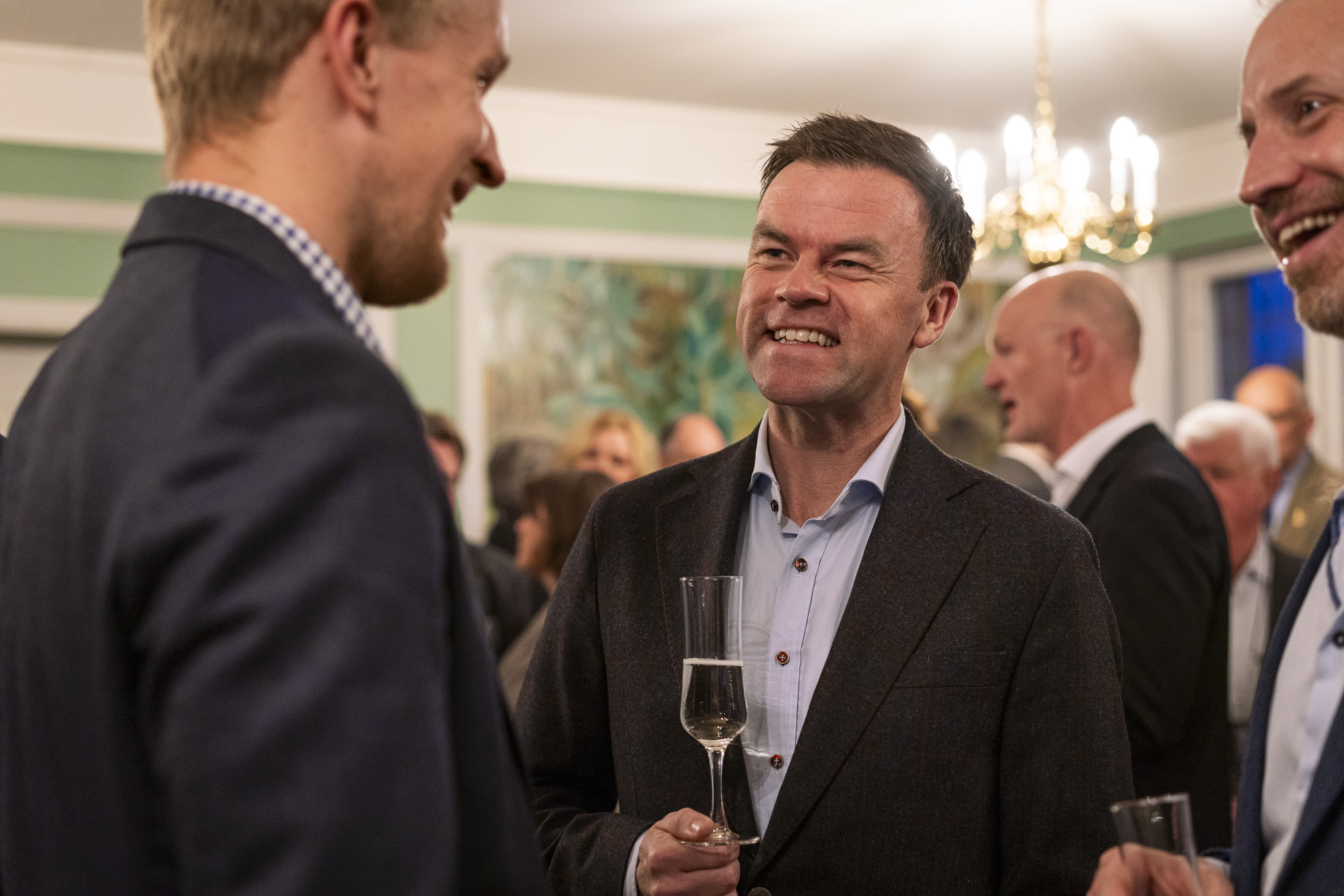 FIDE World FR Chess Championship 2019 - NRK reporter Ole Rolfsrud